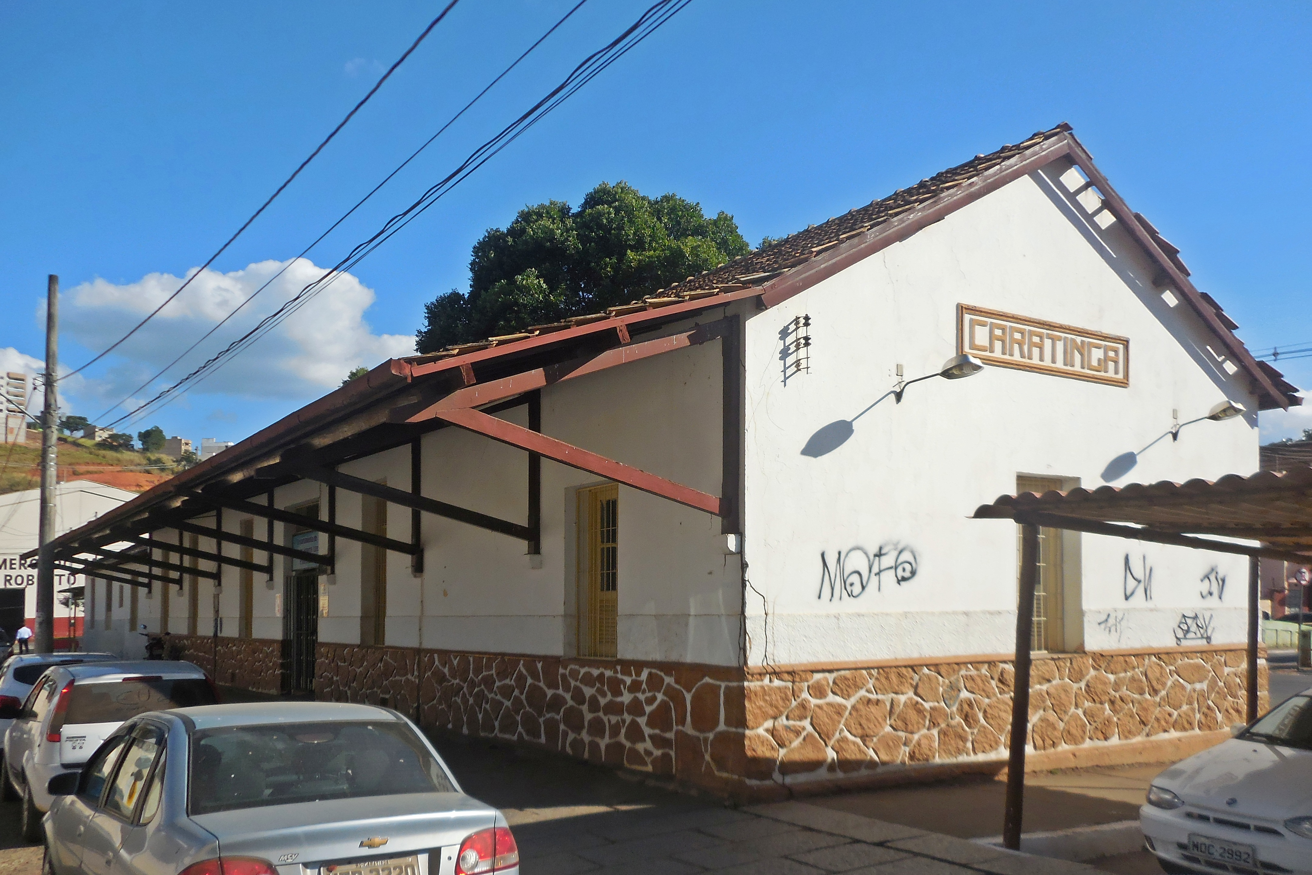 The old train station of Caratinga, Minas Gerais, Brazil.